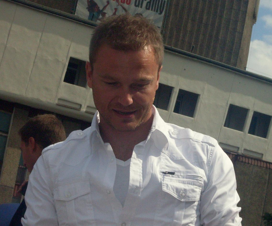 Krystian Wieczorek autographing at III Meeting of Fans of the TV series 'M jak miłość' in Gdynia 2009. "M jak Miłość" in exact translations: "L as Love".